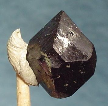 Scorodite Locality: Hezhou Prefecture, Guangxi Zhuang Autonomous Region, China (Locality at ) Size: 1.3 x 1.0 x 0.9 cm. A very sharp, FLOATER scorodite crystal from a BRAND NEW find in China! This dark purple, lustrous beauty has textbook orthorhombic form and is pristine. This is the FIRST new worldwide find of scorodites in many years! This is a major discovery and while the crystals are not gemmy, they are certainly significant for size and form.